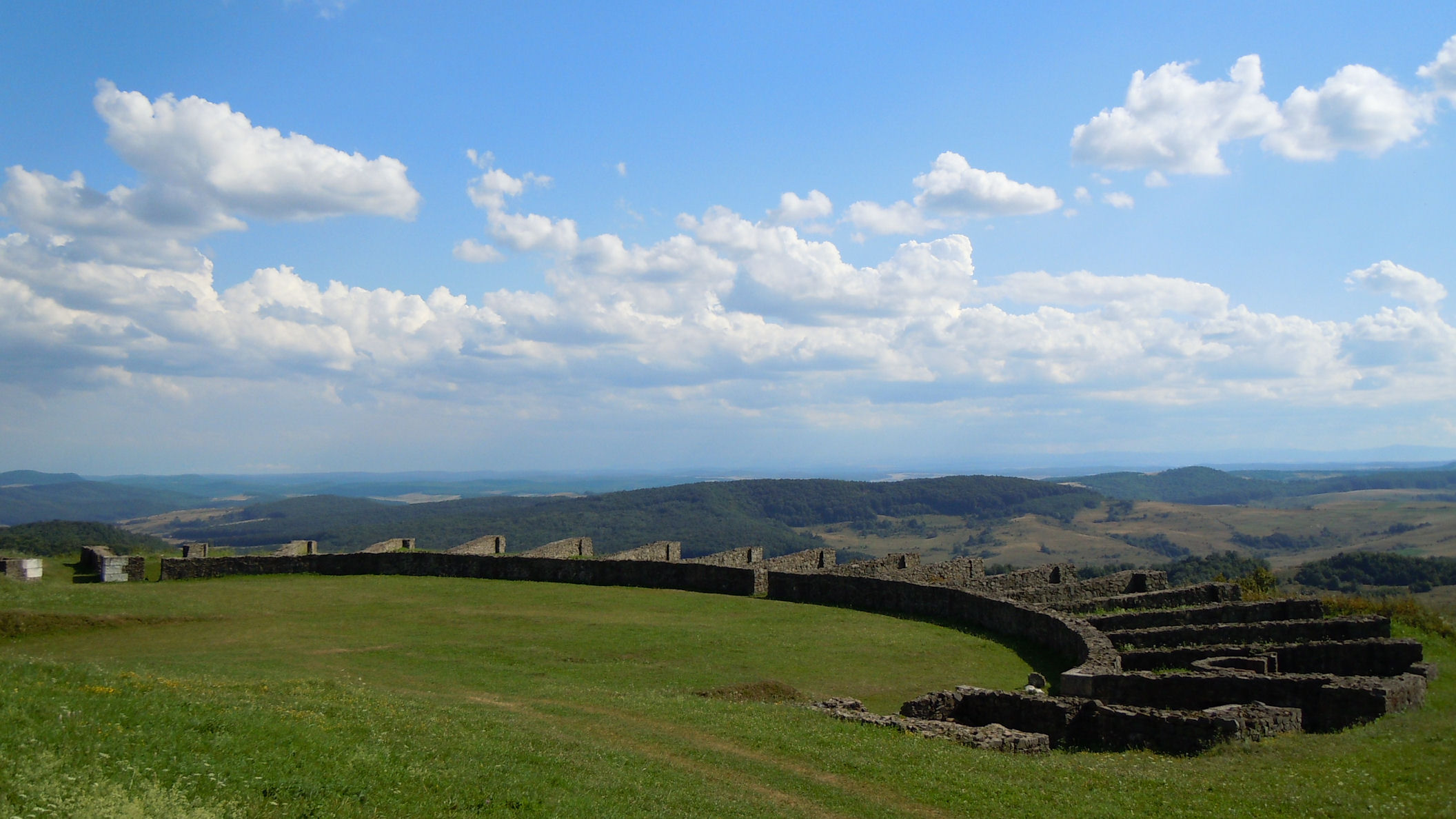 Amphitheater of Porolissum 01